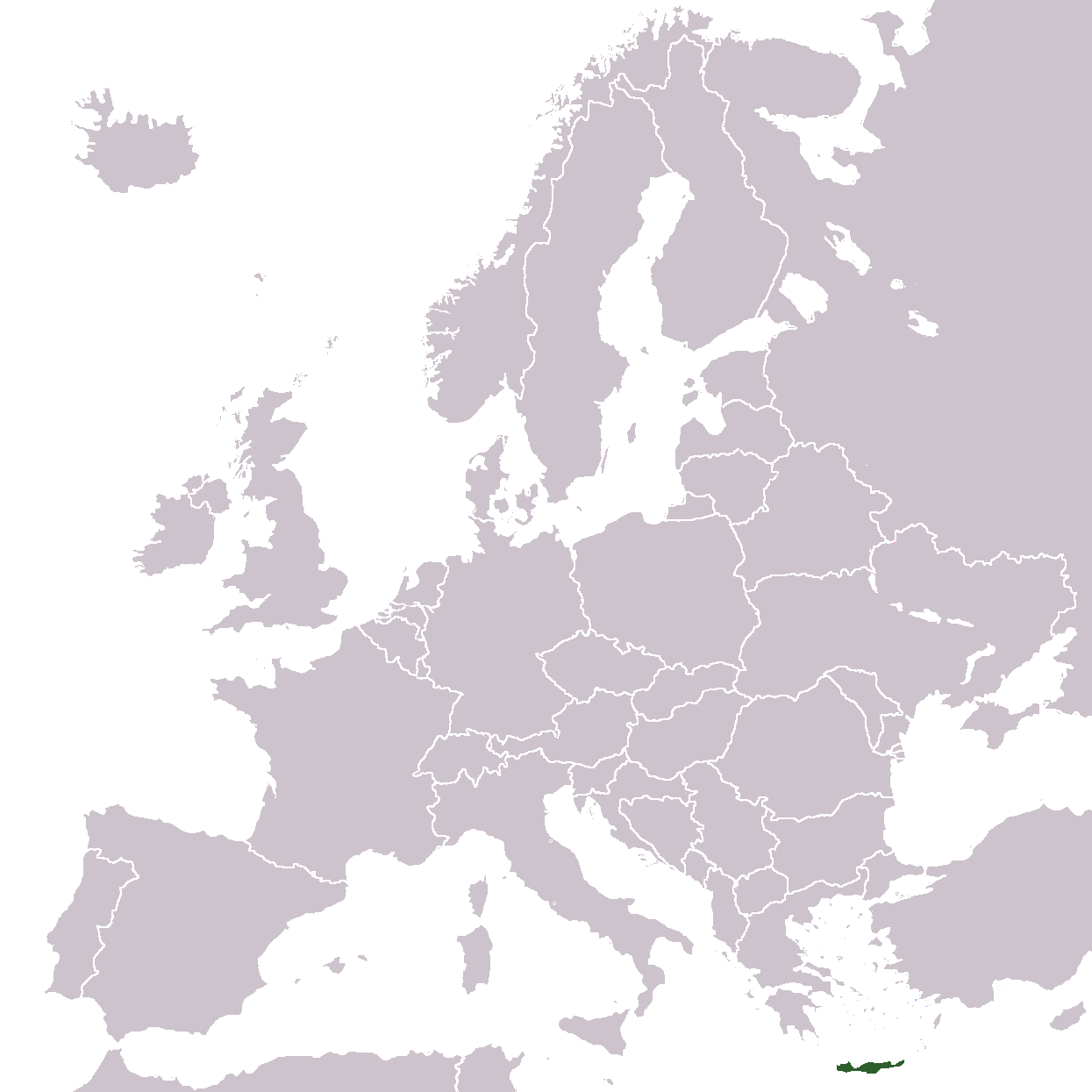 Location map for Crete, based on Europe location F.png, with Montenegro added.